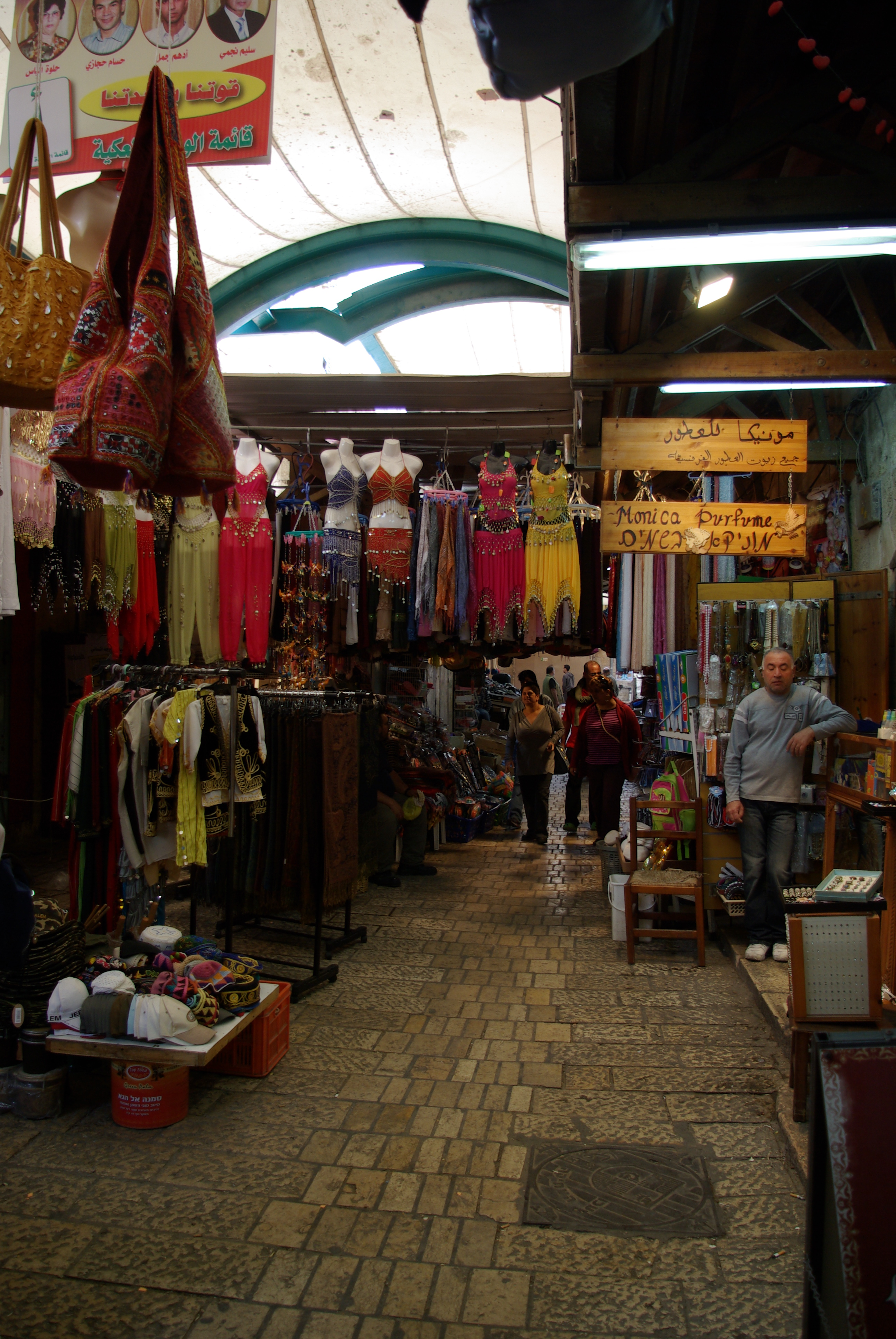 Acre, Souk